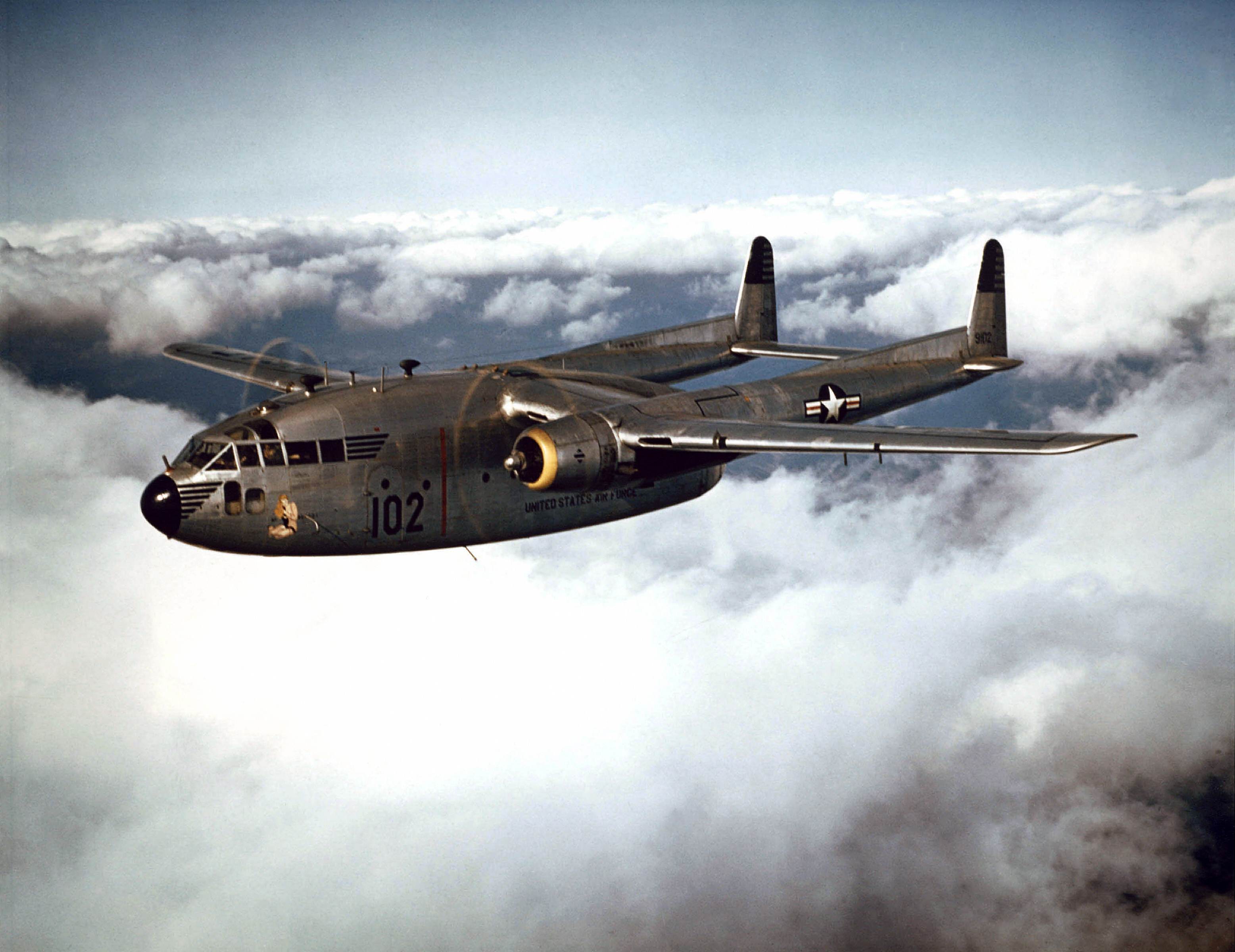 A U.S. Air Force Fairchild C-119B-10-FA Flying Boxcar (s/n 49-102) of the 314th Troop Carrier Group in 1952. This aircraft was later converted to an C-119C in 1955-56. The 314th TCG served in Japan during the Korean War, participating in two major airborne operations, at Sunchon in October 1950 and at Munsan-ni in March 1951. It later transported supplies to Korea and evacuated prisoners of war. Original caption: "The 314th Troop Carrier Group C-119 Flying Boxcars do not start out for the "mountain" unless weather reports are good. They must be able to see the tiny drop zone on the peak before they can drop. But weather is so unpredictable in the high mountains, that often when the planes arrive, the entire area is "socked in" with heavy clouds. In the radio contact with the "men on the mountains," the pilots circle hoping for a break in the clouds, or sometimes, to dive under the clouds and drop on the lower slopes. On several occasions, the planes have had to return to Japan as many as three times without dropping. But 314th Troop Carrier Group pilots are presistant, and eventually win through to drop successfully. 1952 (U.S. Air Force photo)"